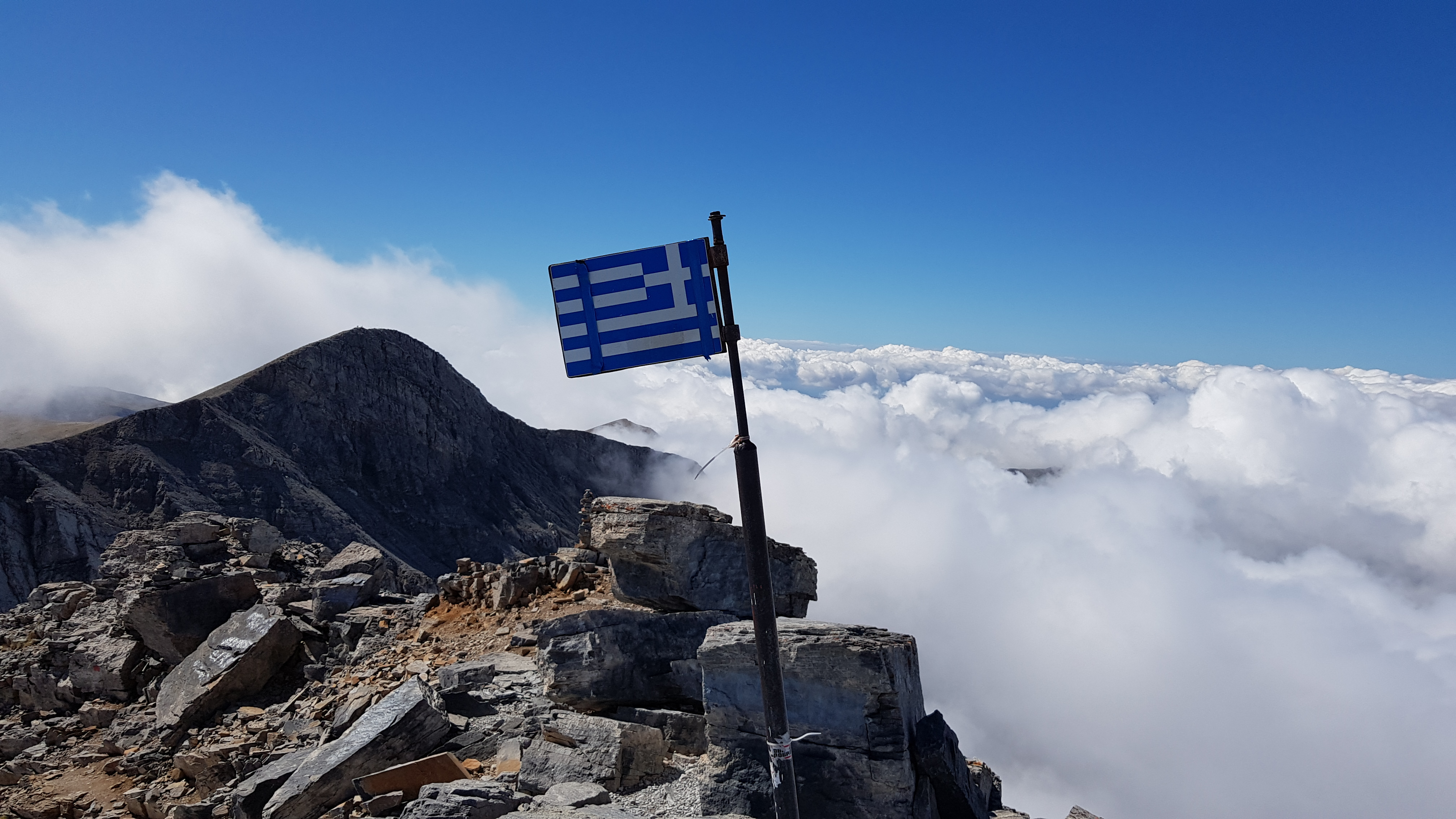 Mount Olimpus: on the summit.